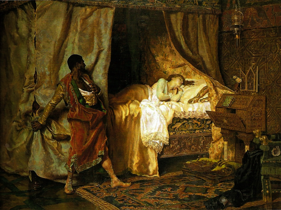 Othello and Desdemona by Antonio Muñoz Degraín, 1880. It takes inspiration from William Shakespeare play "Othello, the Moor of Venice". The painting is located at the Chiado Museum, Lisbon, Portugal.